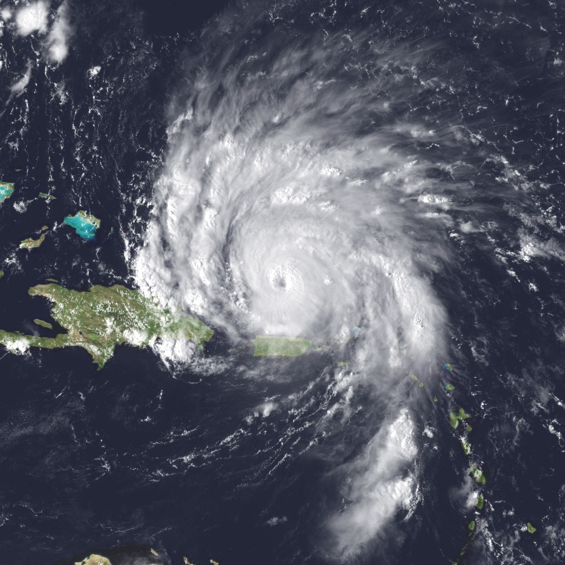 Hurricane Marilyn near peak intensity north of Puerto Rico on September 16, 1995